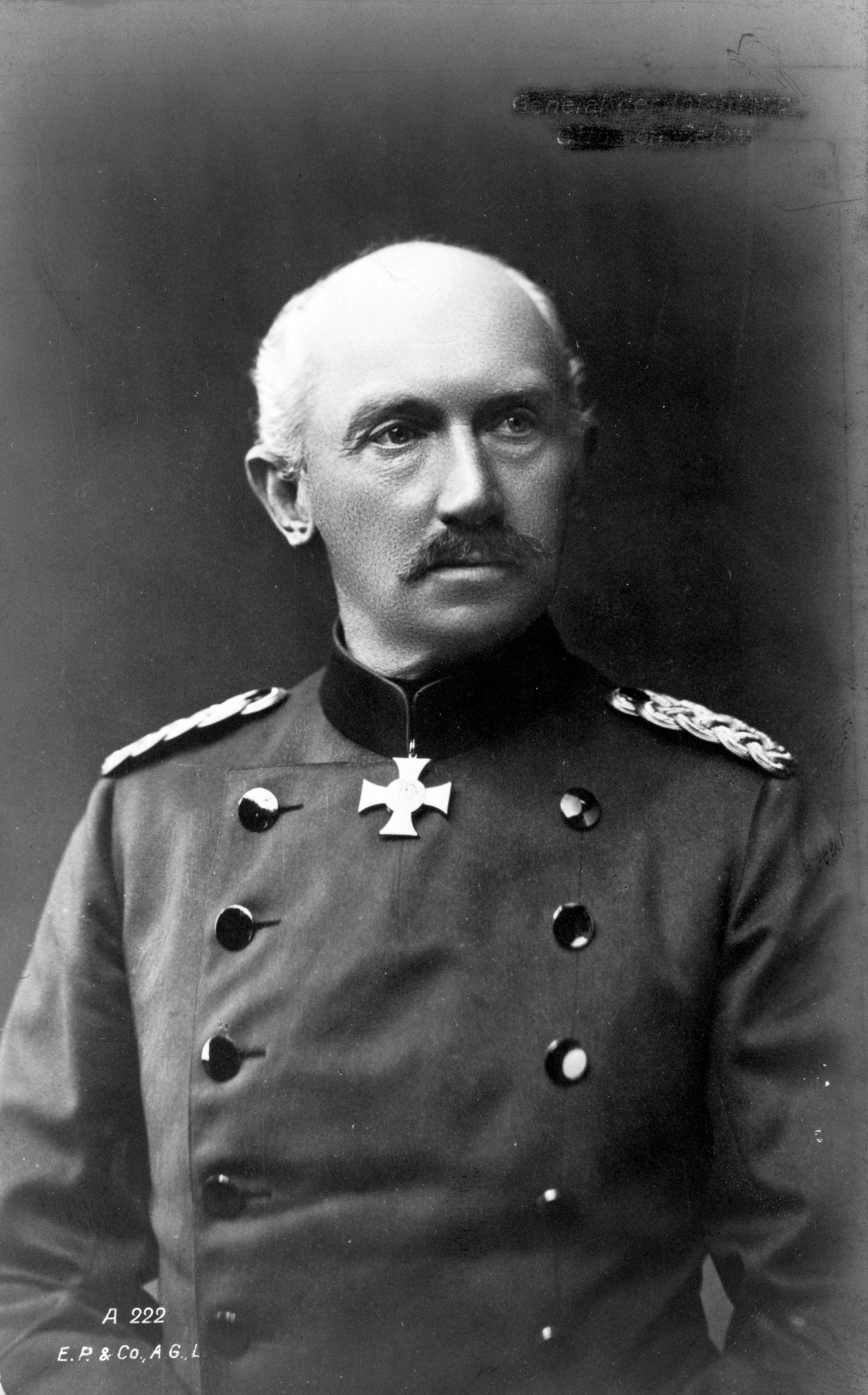 German general Otto von Below. Published by Bain News Service in 1917.